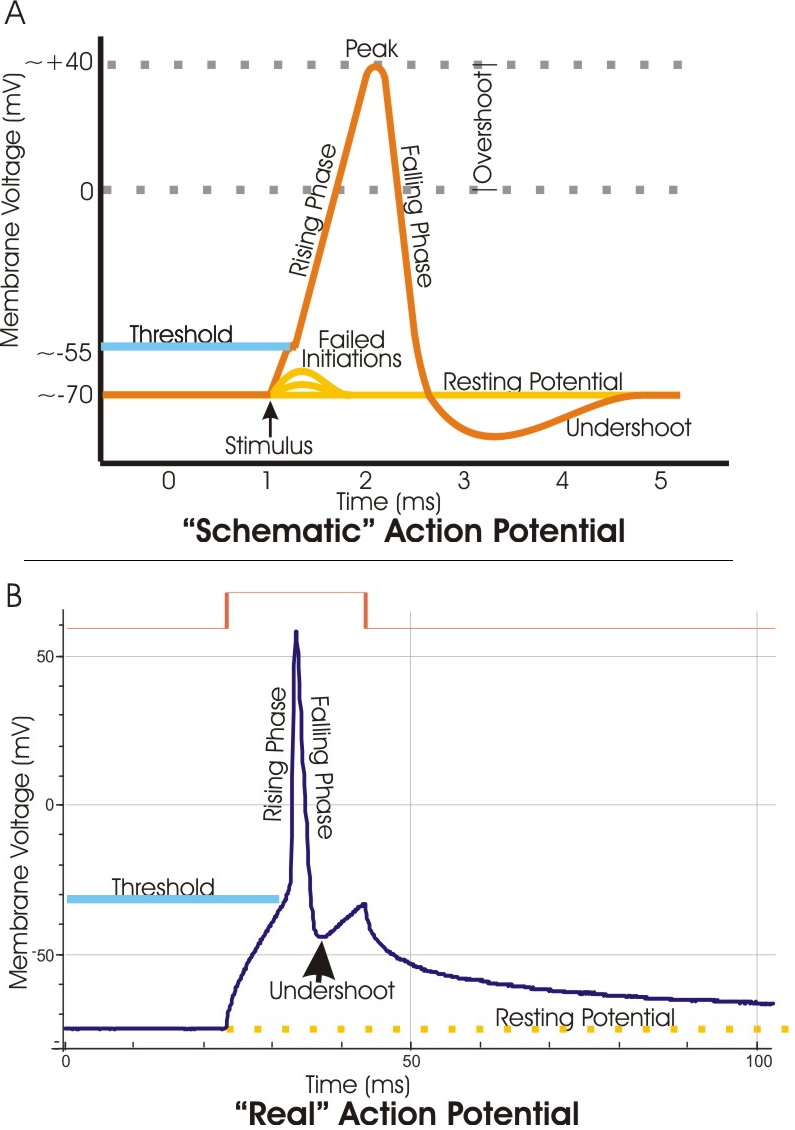 A. Schematic of an electrophysiological recording of an action potential showing the various phases which occur as the wave passes a point on a cell membrane. B. An actual action potential (blue trace) recorded from a mouse hippocampal pyramidal neuron. In this case, the action potential was stimulated by a prolonged pulse of current (brown trace; approx. 2 micro Amps)passed into the cell through the recording electrode. This method of stimulation distorts the AP compared to the schematic, in that the "real" action potential is sitting atop a voltage offset caused by the current pulse. Thus, for example, the "undershoot" is offset from the resting potential, although it would dip below rest if the offset were not present. The slow decline of the membrane potential back toward rest upon the termination of the current pulse reflects the long time constant of the neuronal membrane.